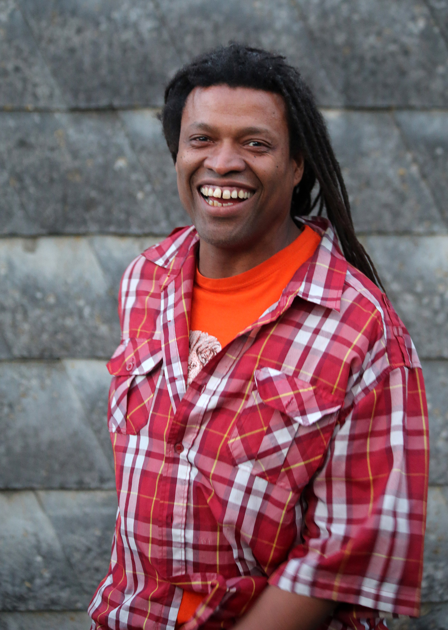 Melvin Gibbs - Ulrichsberger Kaleidophon (Ulrichsberg, Upper Austria)